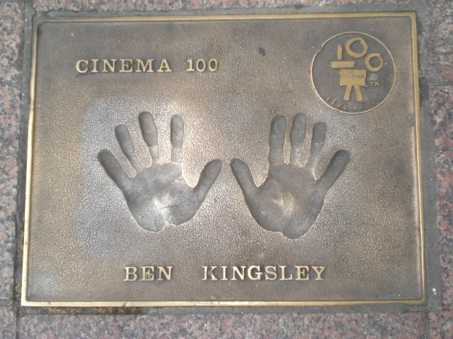 Ben Kingsley handprints at Leicester Square WC2 Sir Ben Kingsley - Krishna Pandit Bhanji (b.1943)